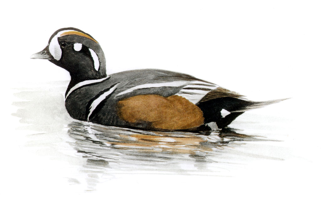 Harlequin Duck, Histrionicus histrionicus, male, chromolithograph after painting (watercolor)